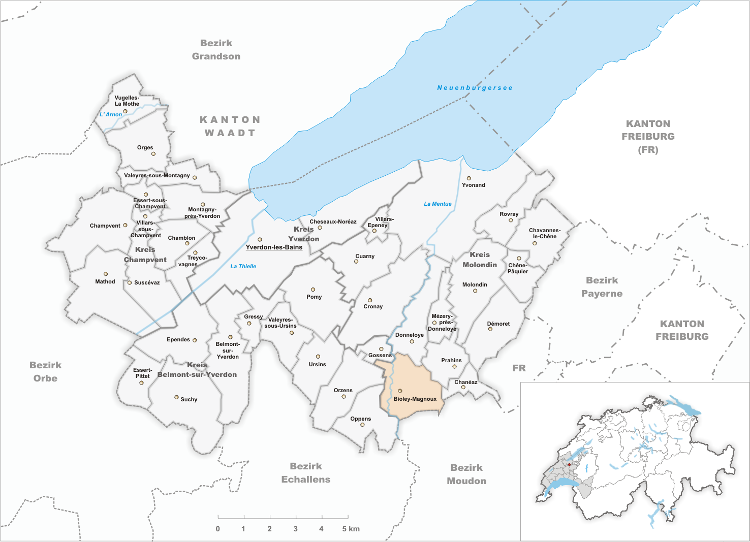 Municipality Bioley-Magnoux